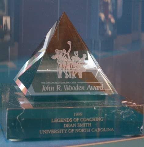 John R. Wooden Award's Legends of Coaching awarded to Dean Smith in 1999. Photo taken at the Carolina Basketball Museum.